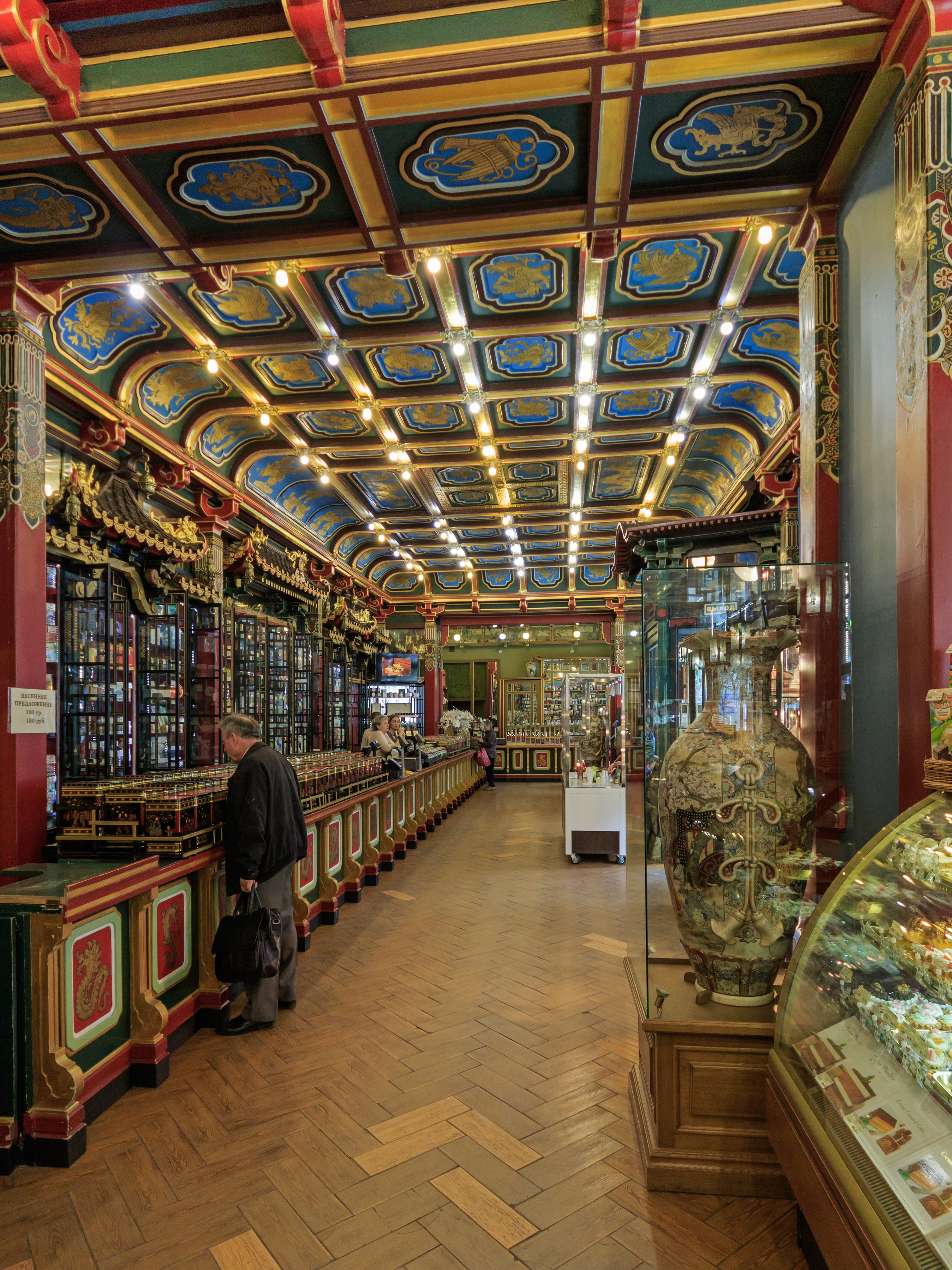 Interior of Tea House at Myasnitskaya Street in Moscow (Russia).